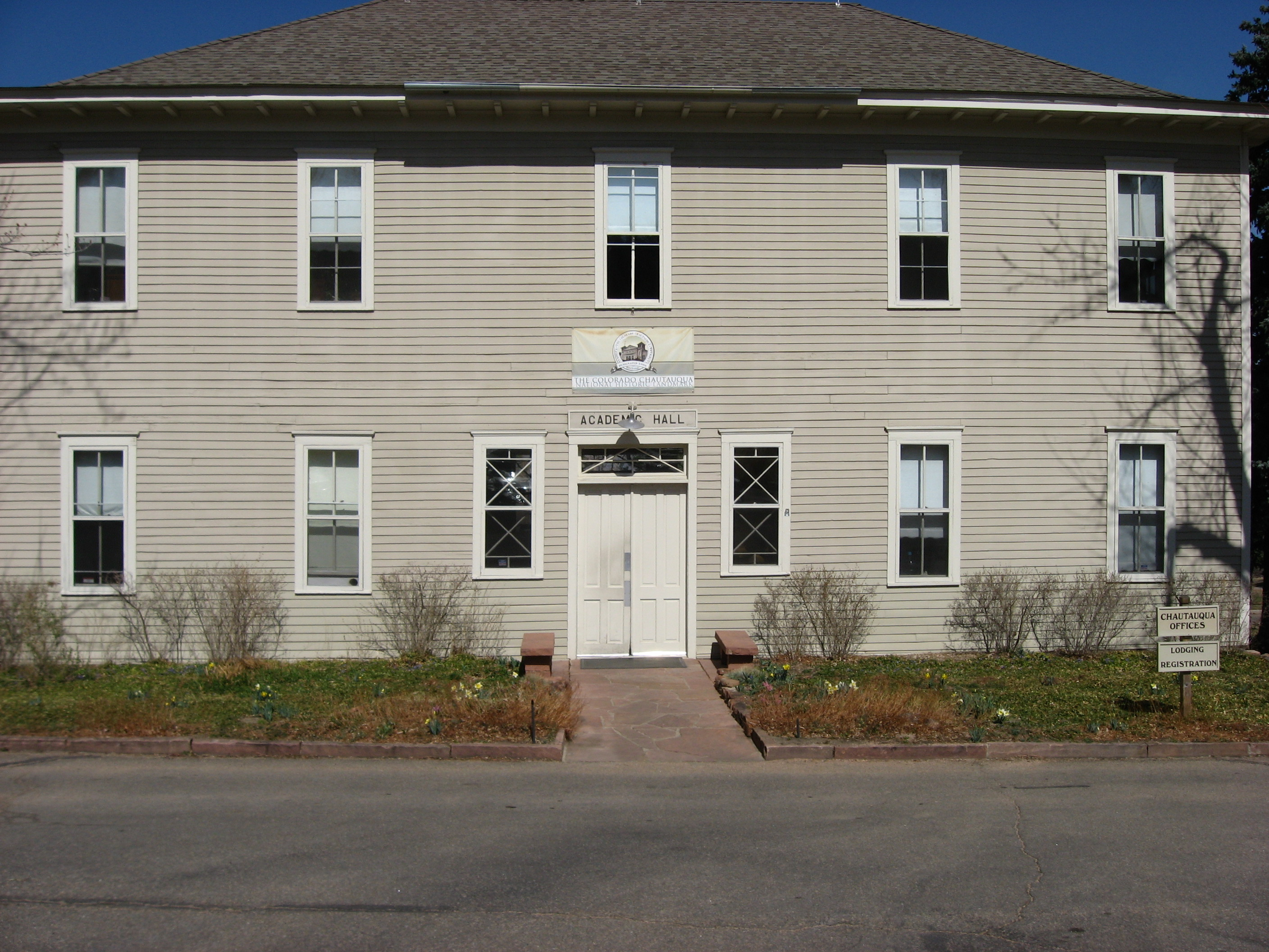 Front view of the Academic Hall (now an office building) at the Colorado Chautauqua, a chautauqua on the southwestern side of Boulder, Colorado, United States. Built around 1900, the hall lies at the heart of the Chautauqua Park, a National Historic Landmark, and is used as an office building.